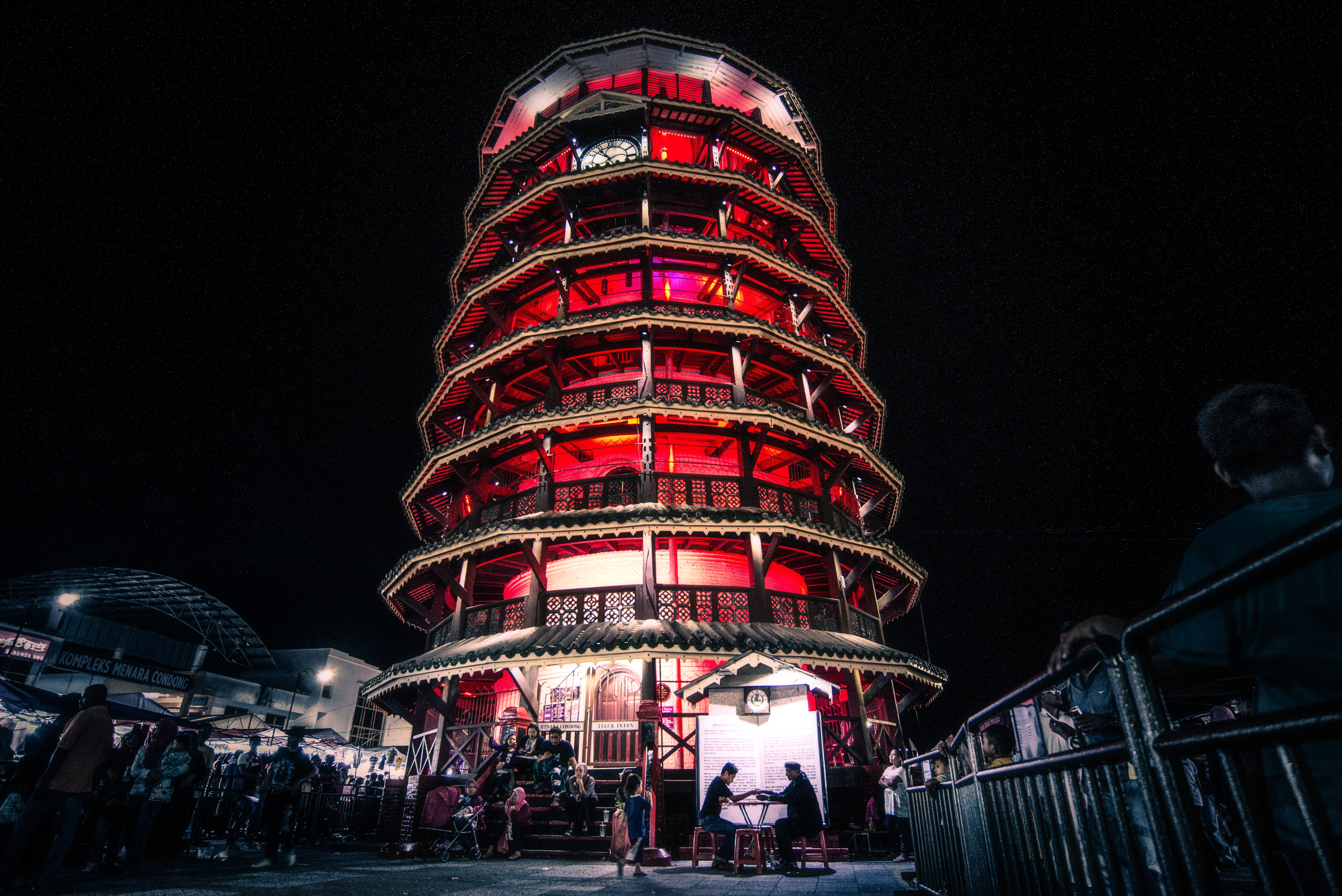 Menara Jam Conndong